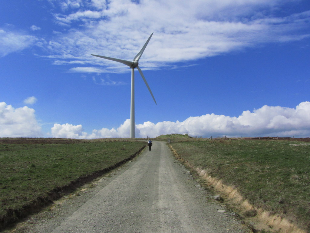 Flotta; Wind Turbine, Ward Hill